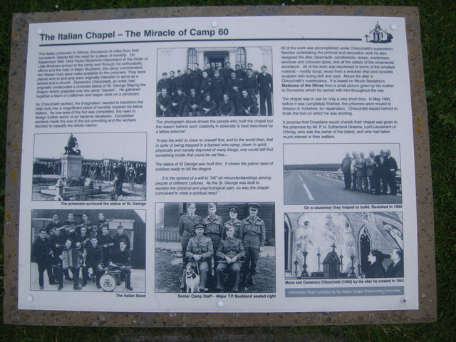 The Italian Chapel, Lamb Holm - Information board 1